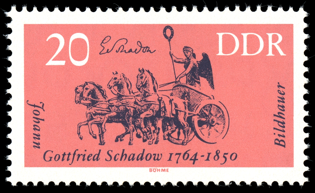 Ausgabepreis: 20 Pfennig First Day of Issue / Erstausgabetag: 6. Februar 1964 Auflage: 8.000.000 Entwurf: Böhme Druckverfahren: Offsetdruck Michel-Katalog-Nr: Ländercode-MiNr: 1099 Licensing This file is most likely NOT in the public domain. It has been marked for review, and will be deleted in due course if the review does not find it to be in the public domain.This file was previously considered to be in the public domain as a German stamp; it is possible that it is in the public domain for other reasons, in which case a new rationale will be applied as part of the review process. See below for the previous rationale. Previous public domain rationale, no longer applicable This stamp is in the public domain in Germany because it was released by the postal administration of the German Democratic Republic or the Soviet occupation zone (Deutschen Post der DDR) whose legal successor is the Federal Republic of Germany. Thus it is an official work according to German copyright law (§ 5 Abs. 1 UrhG).